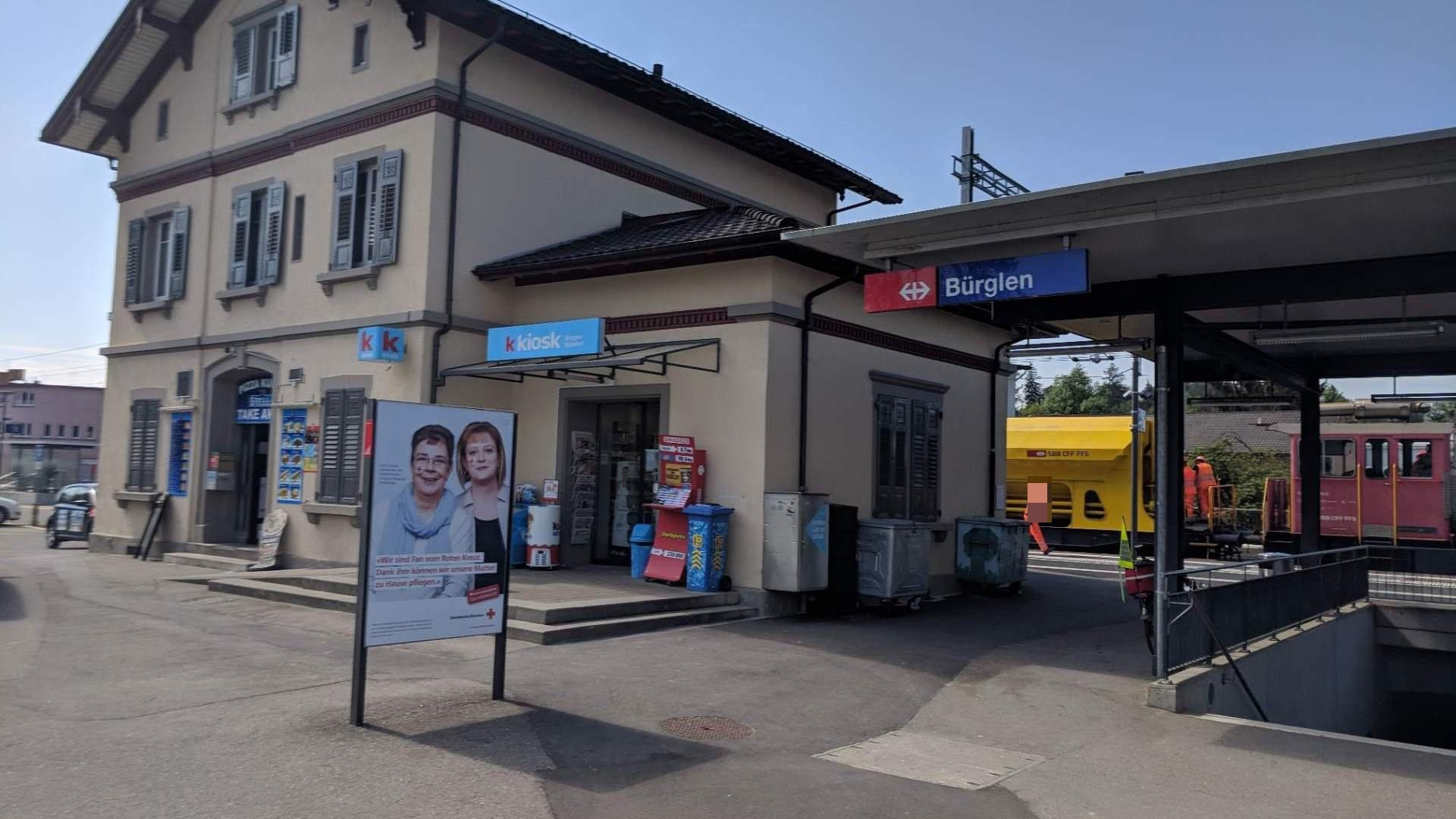 Bürglen railway station in Bürglen, Thurgau, Switzerland.